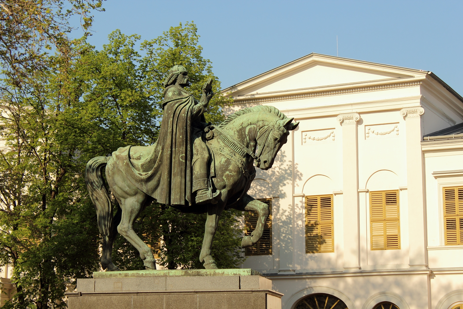 The statue of King Saint Stephen I in Székesfehérvár, Hungary